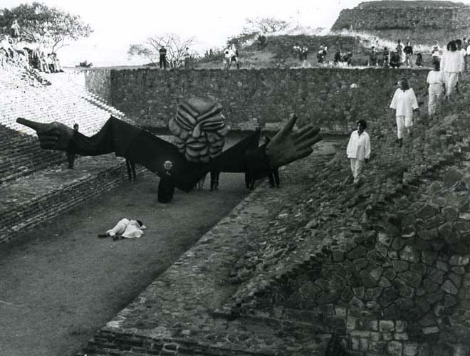 Sol y Luna -- Dragon Dance Theatre in Monte Alban, Oaxaca, Mexico, directed by Sam Kerson and Roberto Villaseñor